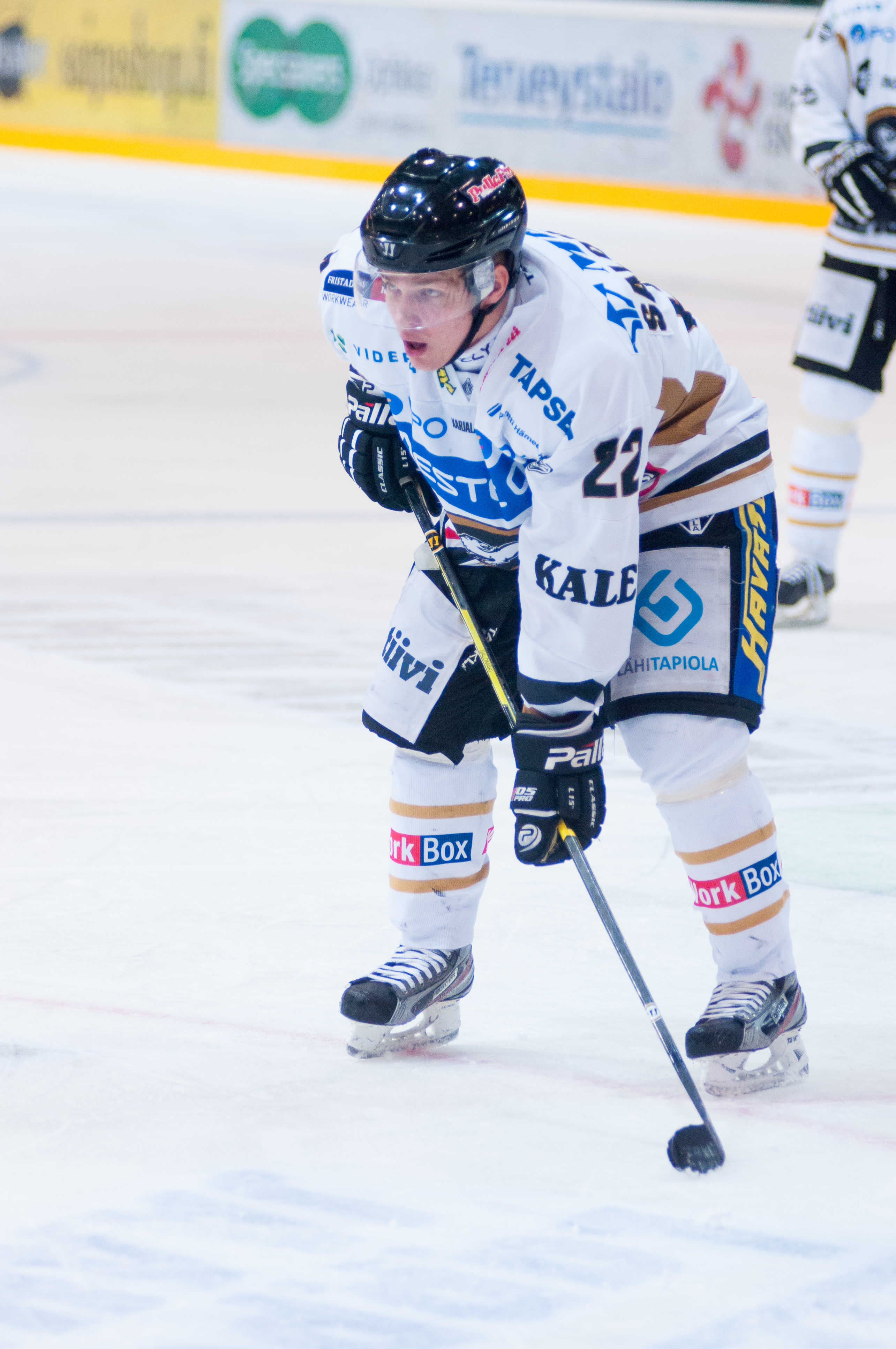 Miikka Salomäki of Oulun Kärpät playing against SaiPa Lappeenranta in Lappeenranta, Finland.